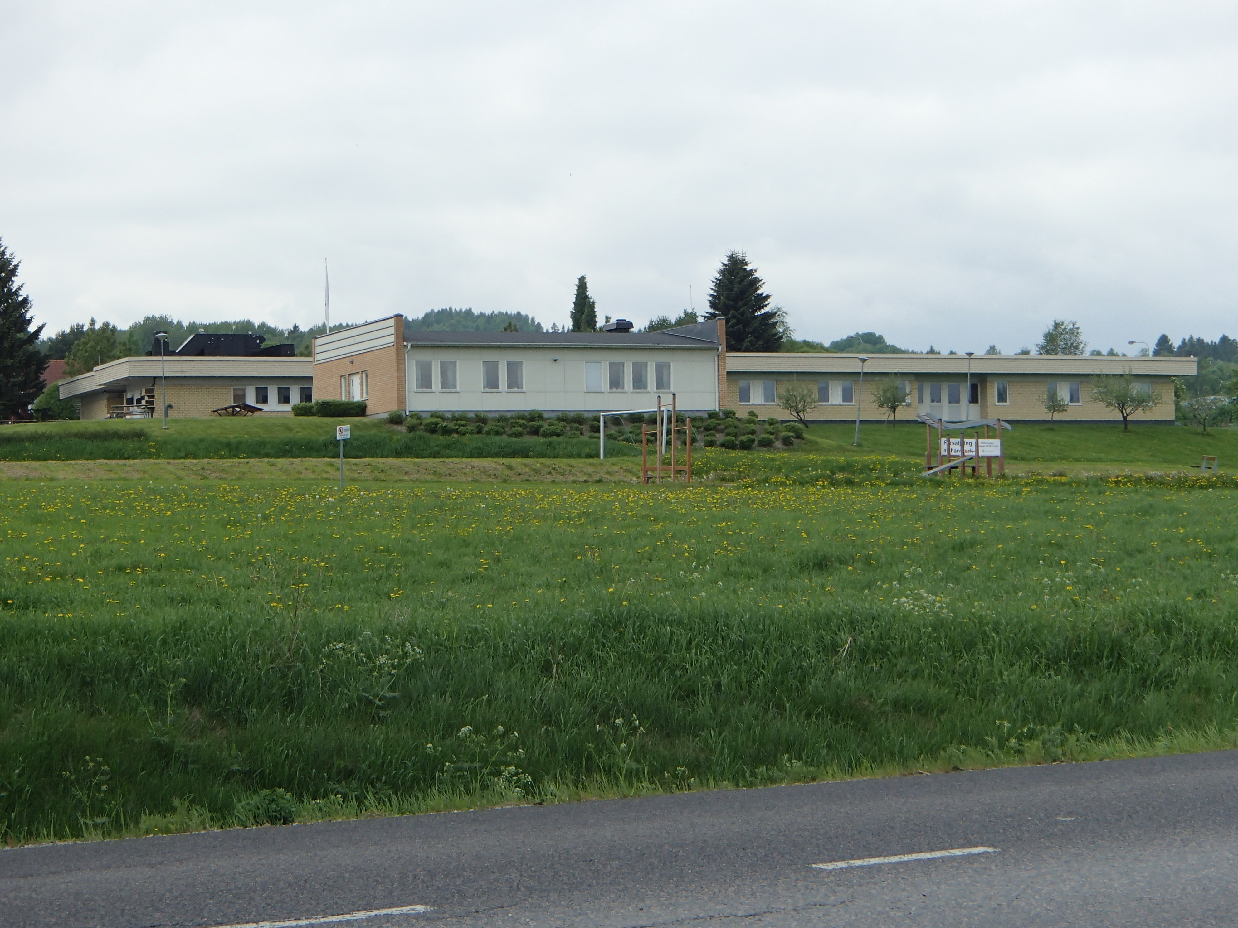 The women's prison in Ljustadalen, Sundsvall, viewed from east